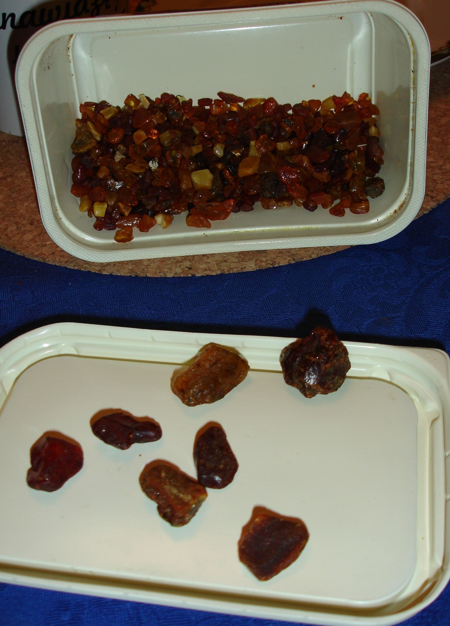 Baltic amber collected from the shores of the Baltic at Sopot, Poland.